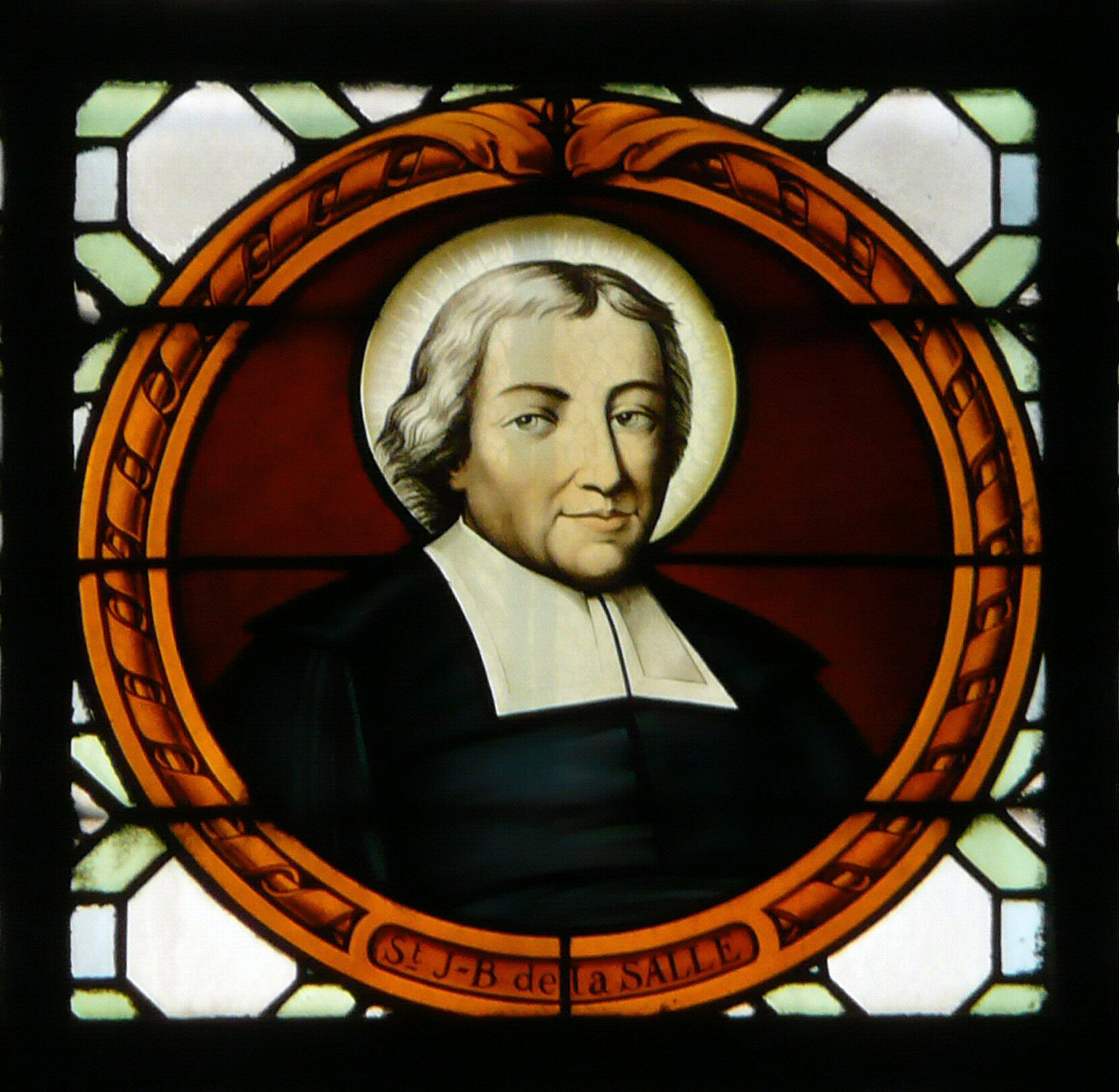 Central medallion of the stained glass in the eponymic chapel of the Roman Catholic church Saint-Sulpice in Paris